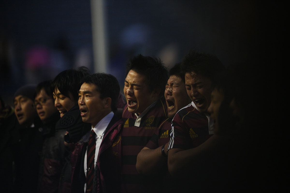 JANUARY 12, 2008 - Rugby: Waseda players celebrate thier victory after the The 44th All Japan University Rugby Championship final between Waseda University and Keio University at National Stadium on January 12, 2008 in Tokyo, Japan. (Photo by Tsutomu Takasu)